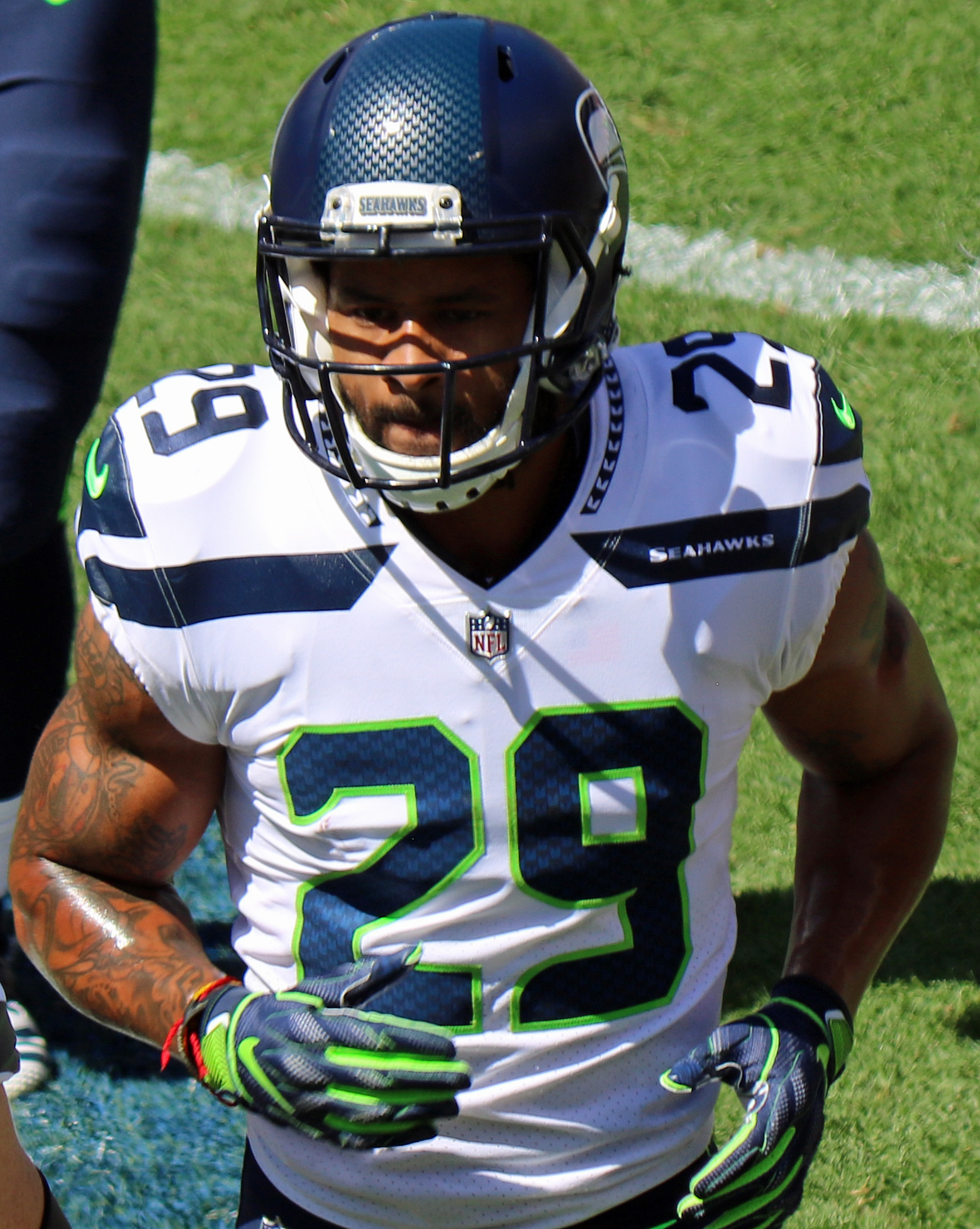 Earl Thomas, a National Football League player.